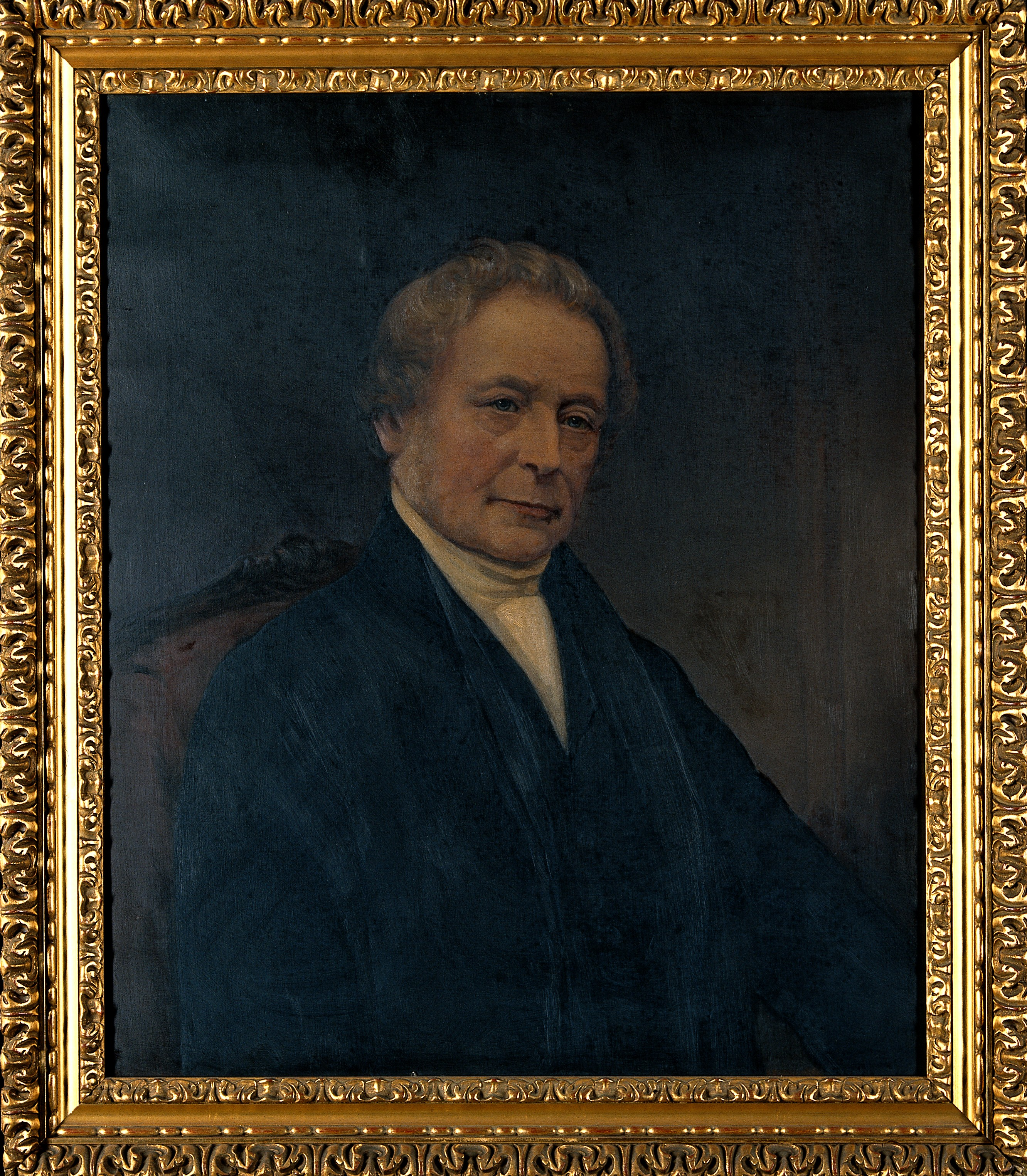 Joseph Jackson Lister. Oil painting. Iconographic Collections